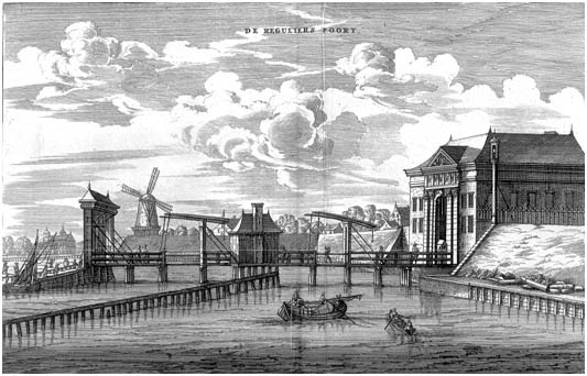 The Regulierspoort (Reguliers Gate), later converted into the Boterwaag, in Amsterdam, as depicted in Olfert Dapper's Historische Beschryving der Stadt Amsterdam (1663).